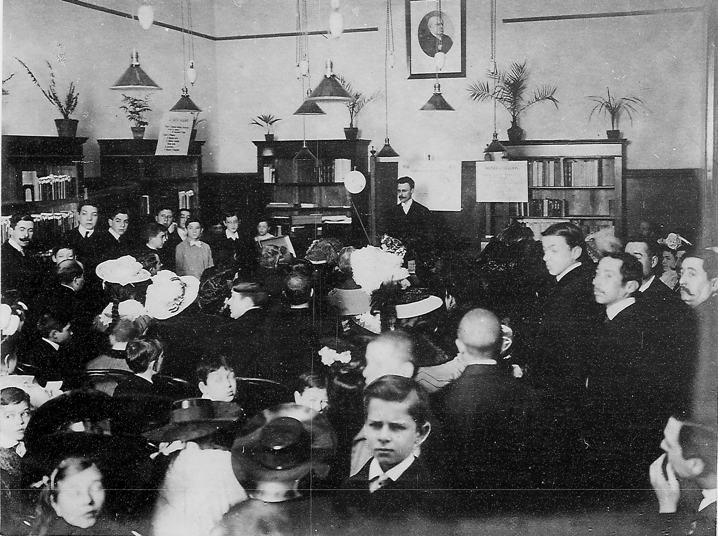 Popular library